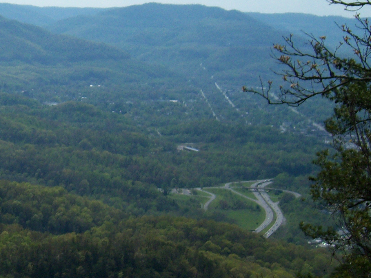 Middlesboro, Kentucky as viewed from Cumberland Gap National Historical Park.